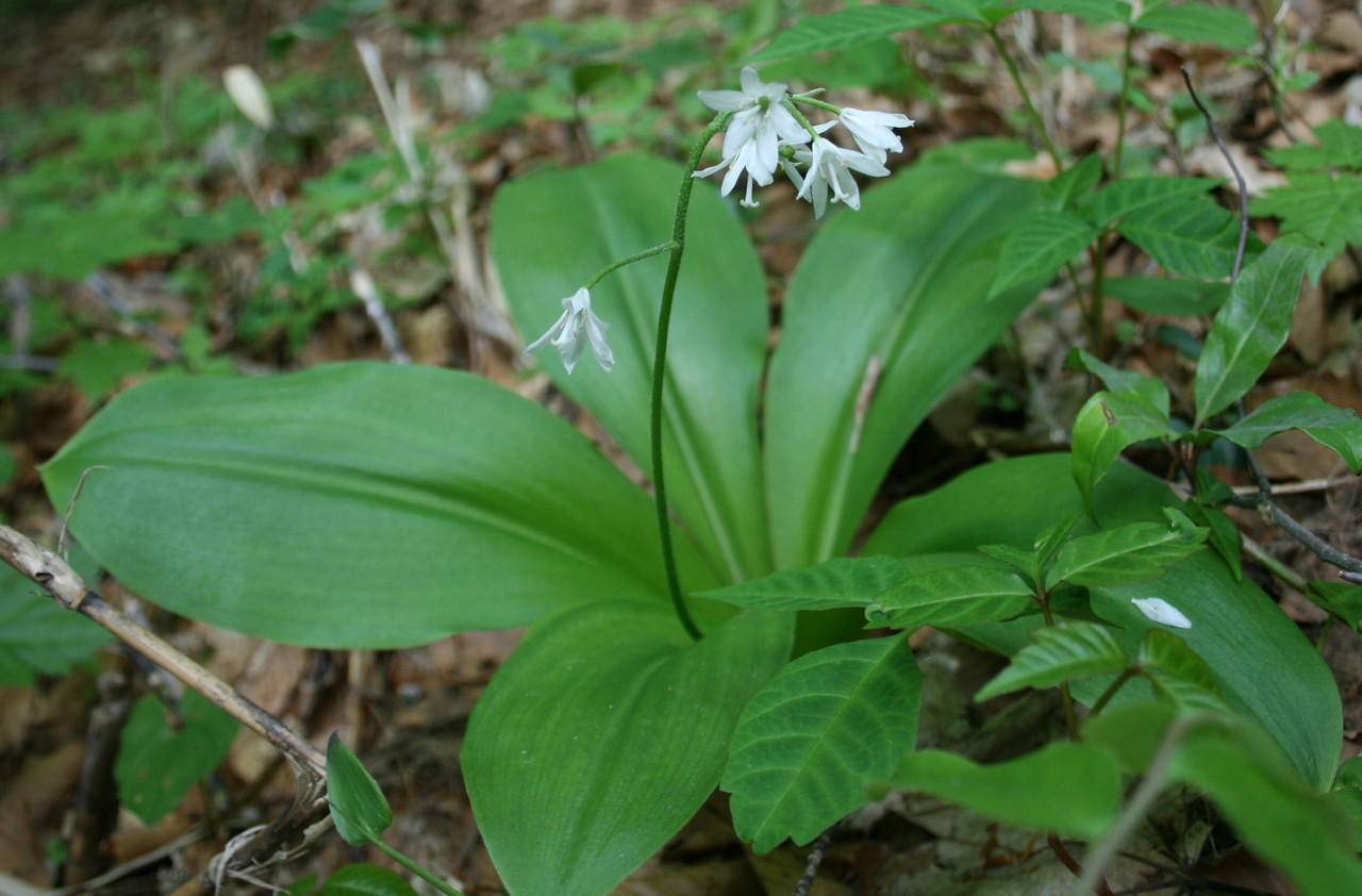 Clintonia udensis in Mount Haku